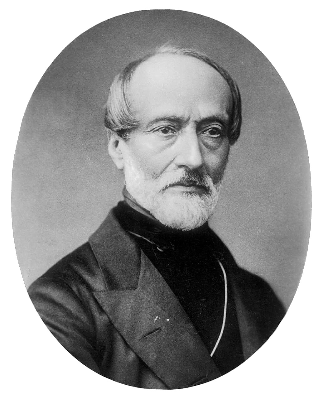 Italian statesman Giuseppe Mazzini